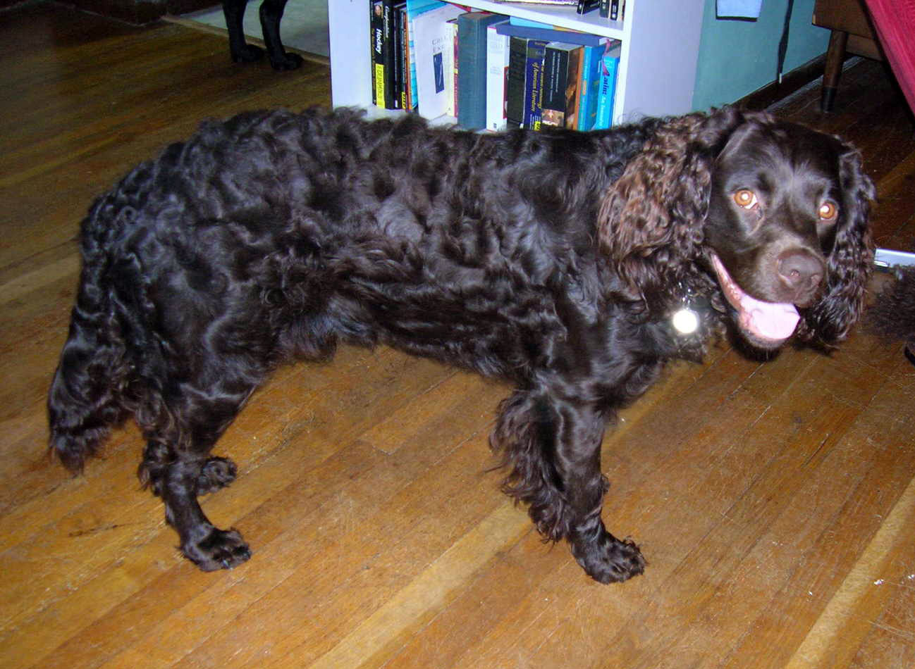 American Water Spaniel at home